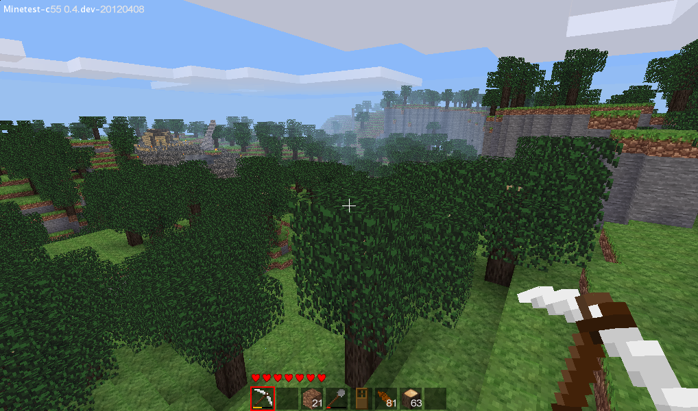 Screenshot from the game, showing the varied terrain, from the Author's website.